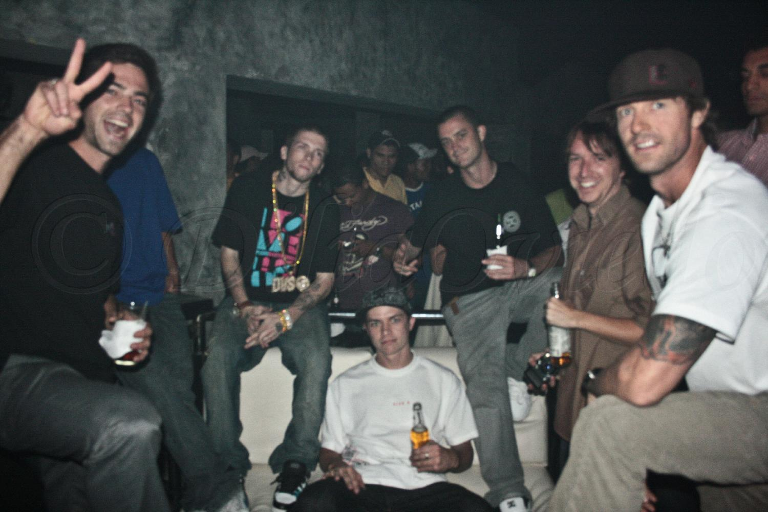 Sean Hayes, Jereme Rogers, Ryan Gallant, Colin Mckay, and Danny Way